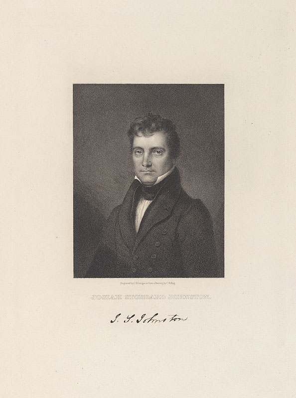 Josiah S. Johnston (1784-1883)